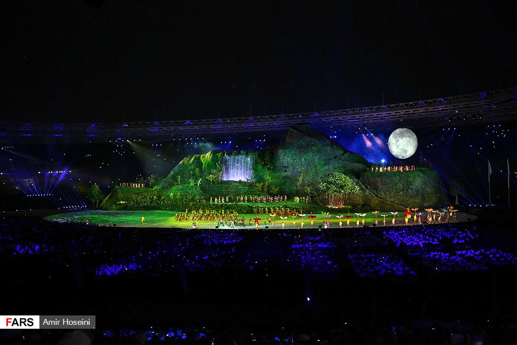 2018 Asian Games opening ceremony